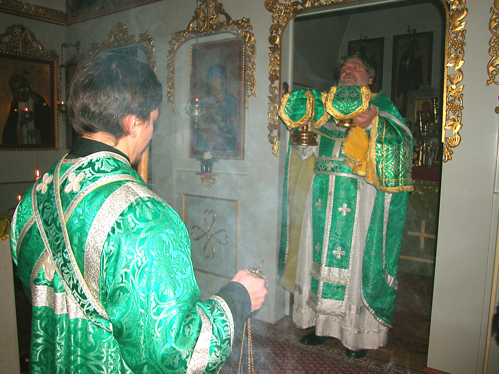 Archbishop Longin of Klinsky celebrates Divine Liturgy in honor of Saints Cosmas and Damian.